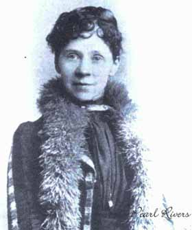 Eliza Jane Poitevent Holbrook Nicholson (1849 - 1896), United States journalist and poet